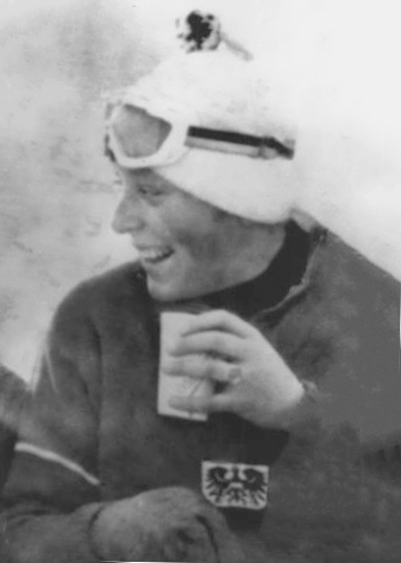 1962 Press Photo Linda Meyers, Christl Haas, Traudi Hecher at Swiss skiing